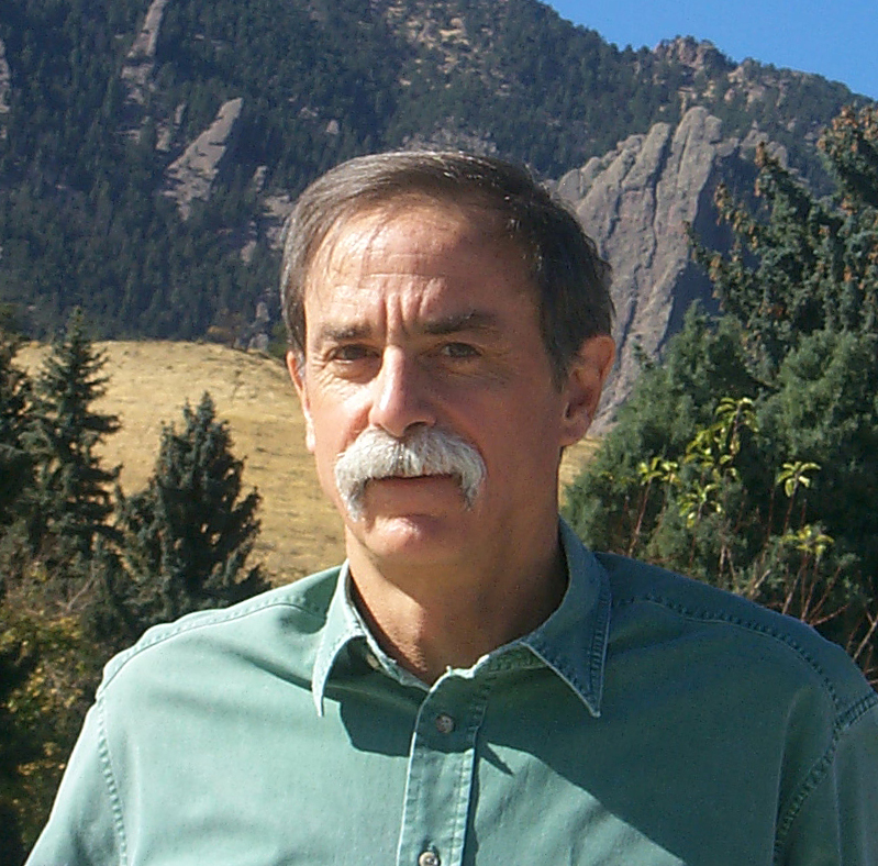 Physicist David J. Wineland of NIST Boulder Laboratories in Colorado